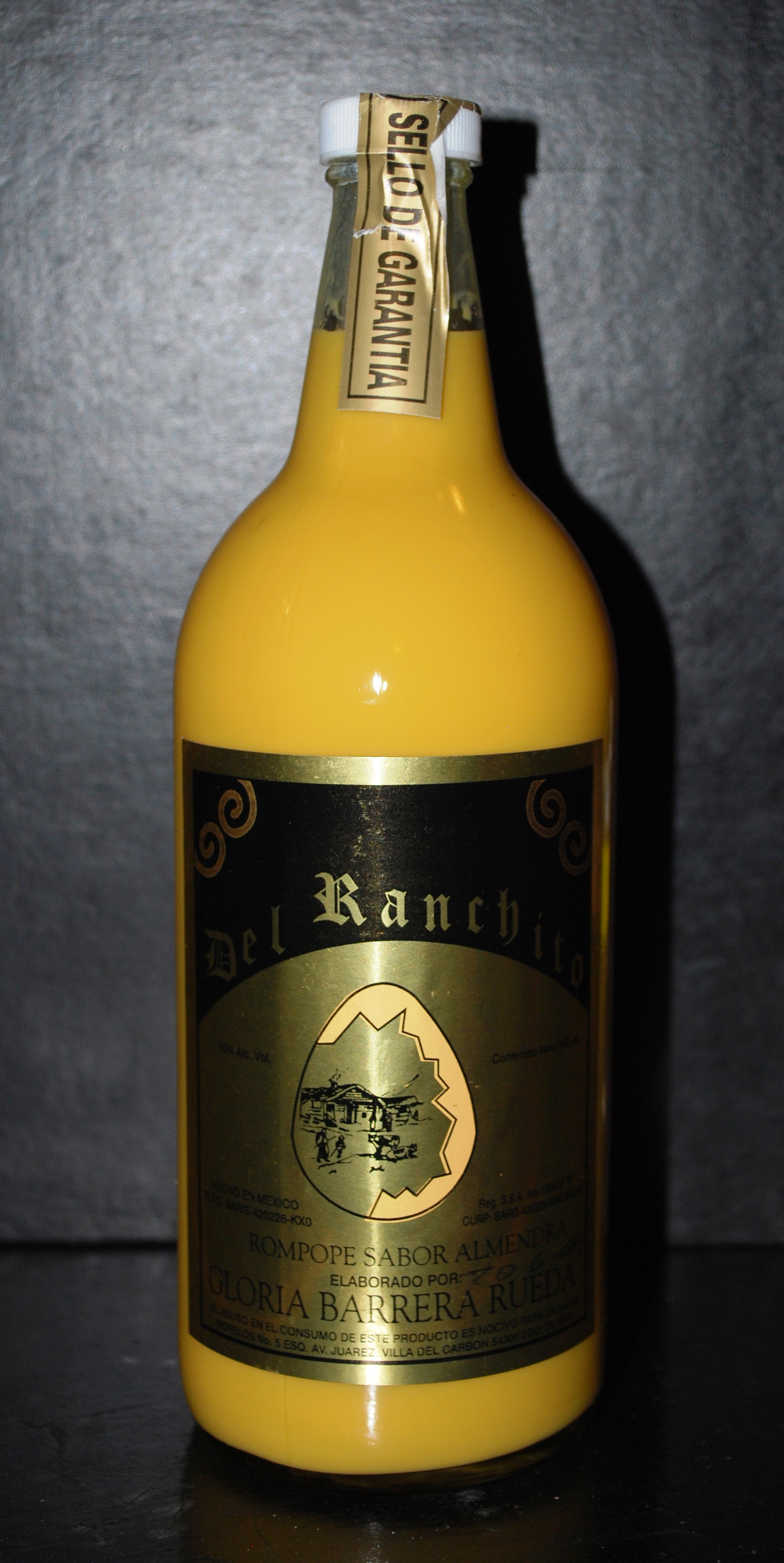 Gloria Barrera Rueda rompope (a type of egg liqueur) from Villa del Carbón, Mexico State, Mexico